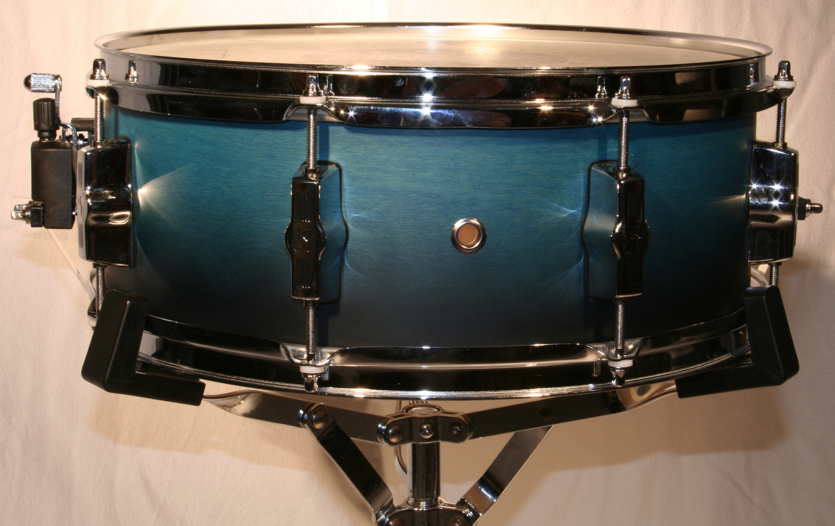 Snare made by Sonor